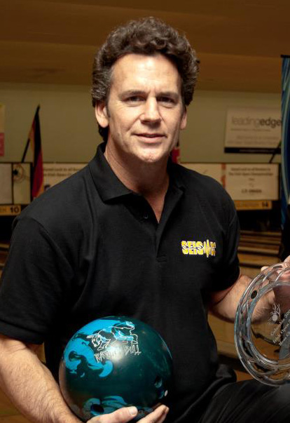 Brian Voss with his first prize at the 2012 Irish Open Championships